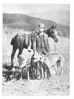 Caption: Charles F. Holder with the Valley Hunt Hounds. This pack of hounds was the most famous in Southern California.